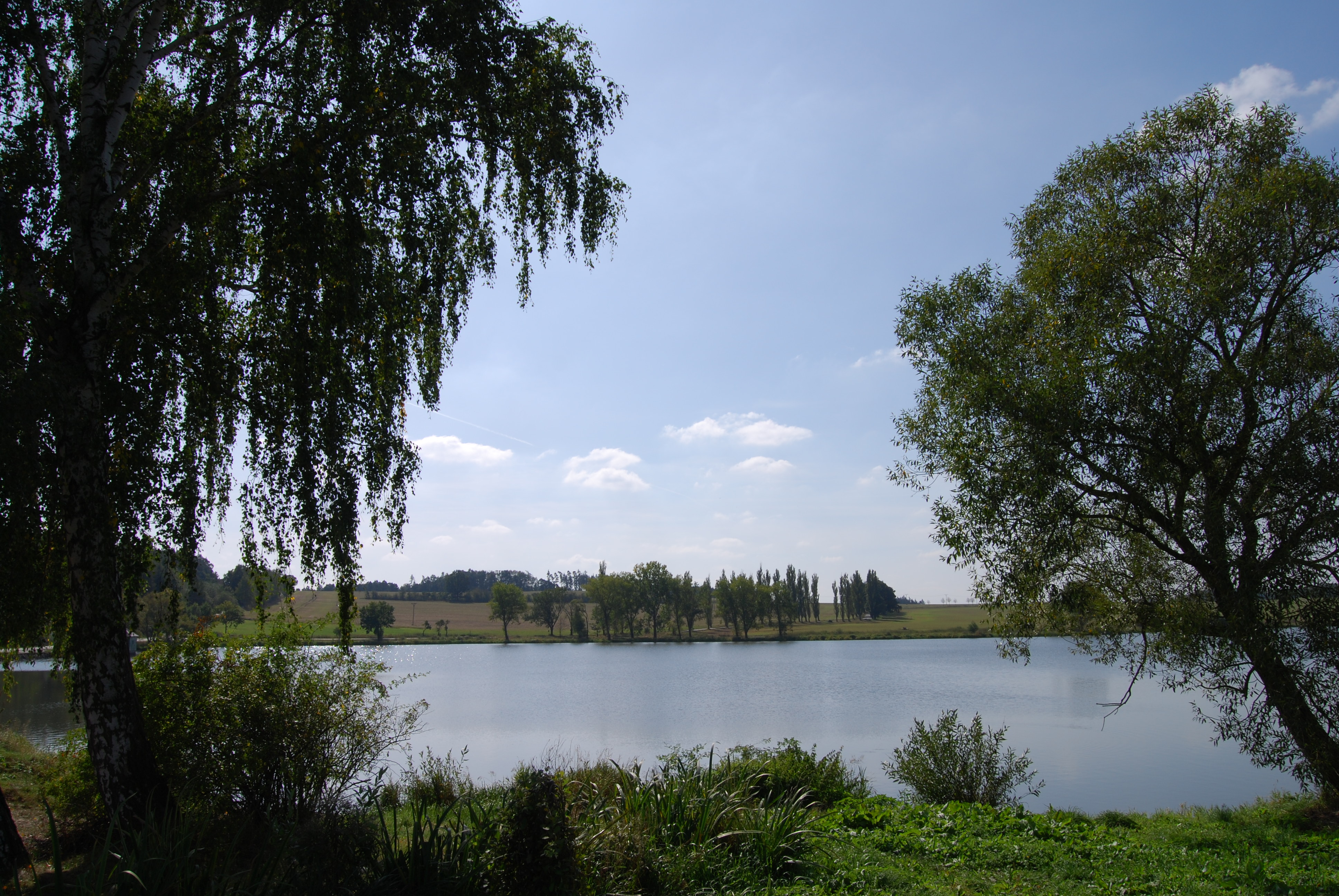 Labuť pond near Myštice village, Strakonice district.